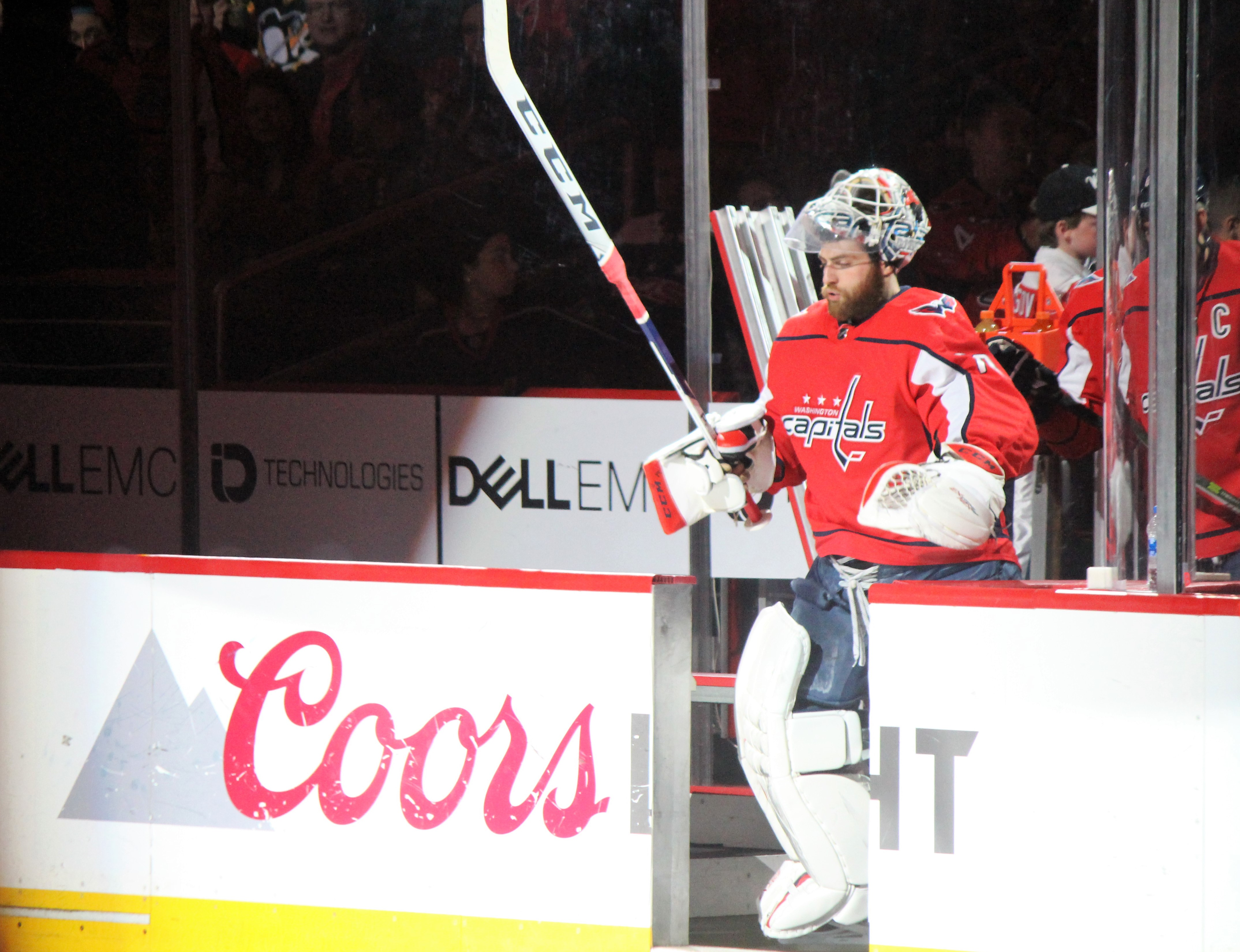 Washington Capitals goaltender Braden Holtby during game 2 of the Eastern Conference Semifinals series against the Pittsburgh Penguins, April 29, 2018, at Capital One Arena in Washington, D.C.